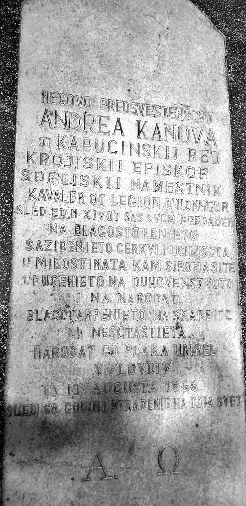 Tomb of bishop Andrea Kanova